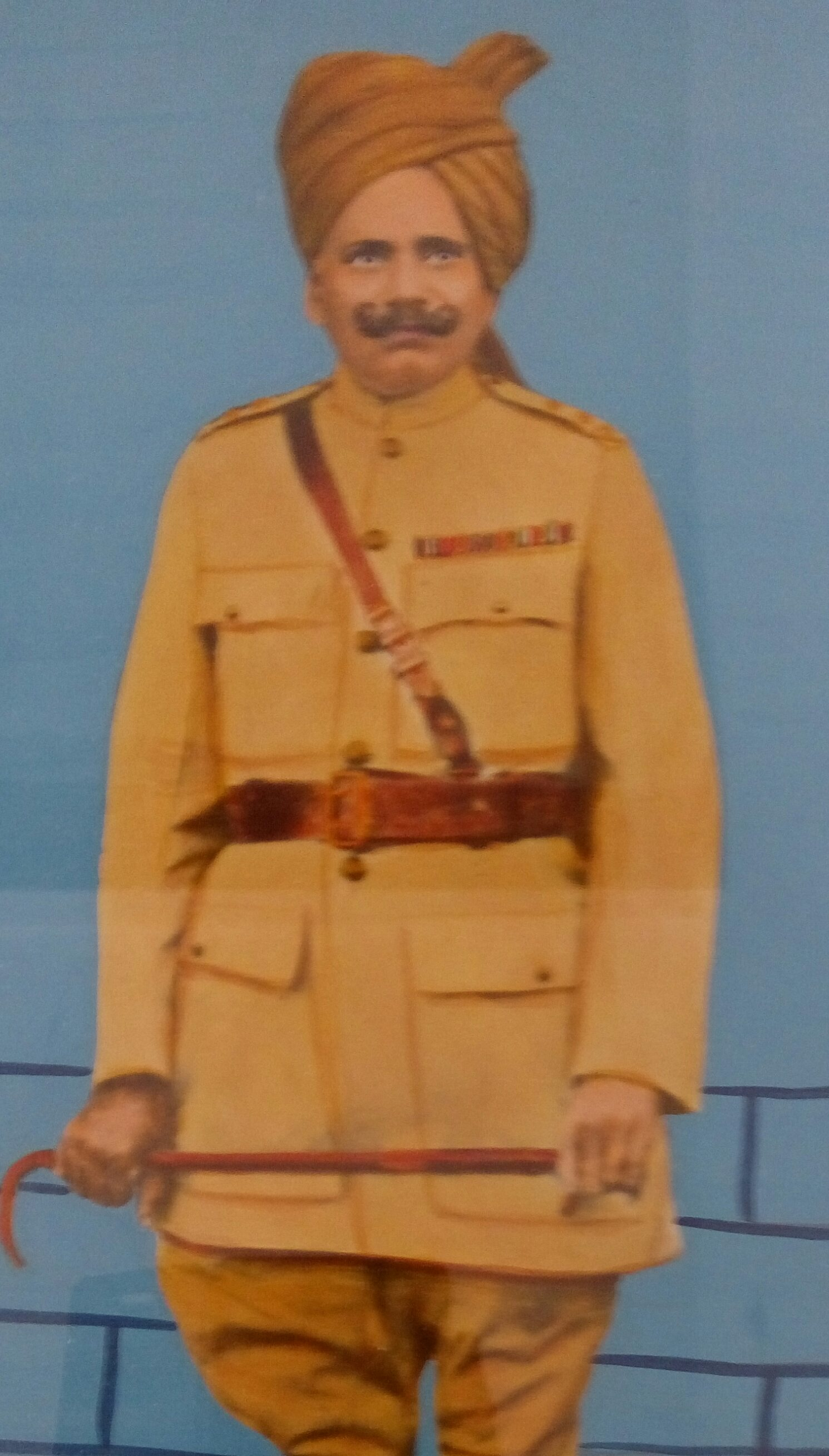 War Hero world war 1